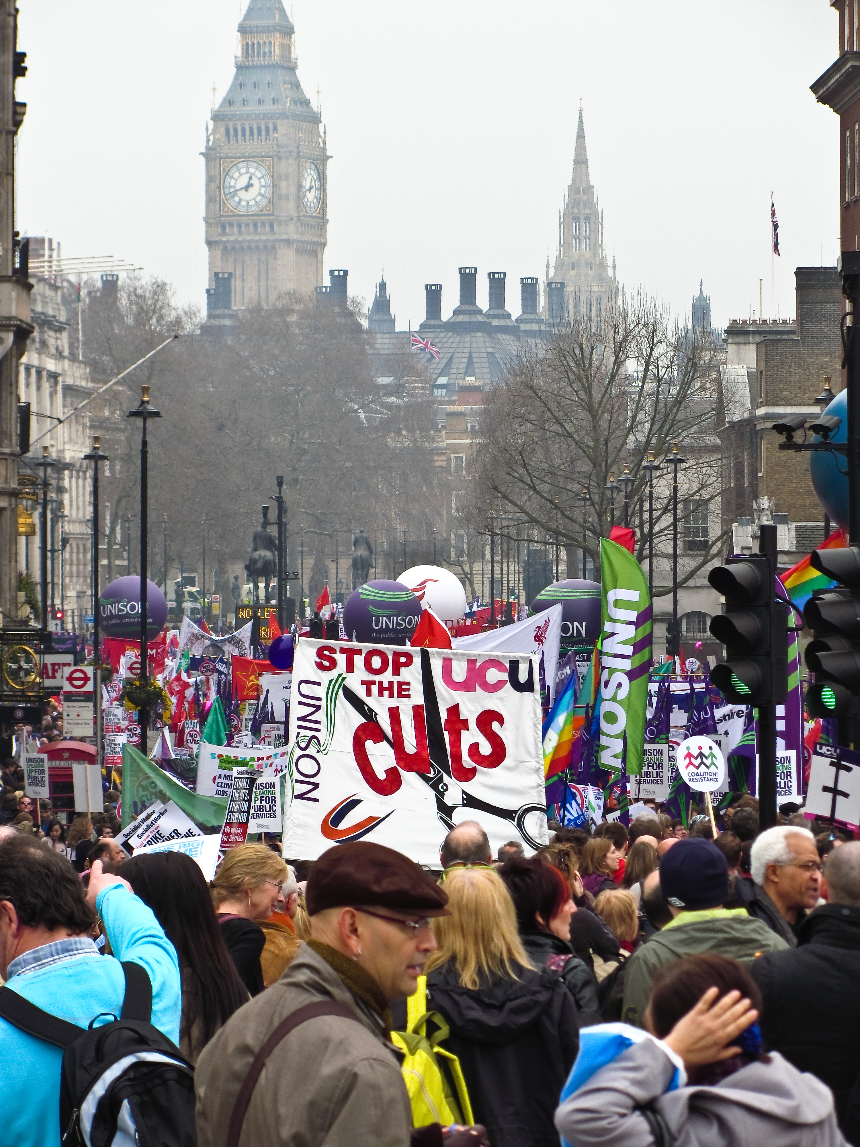 Demonstrators at the March for the Alternative in London